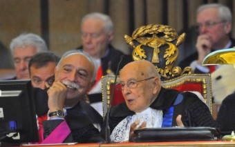 Professor Rugge with President Emeritus Giorgio Napolitano during the inauguration of academic year 2015-2016